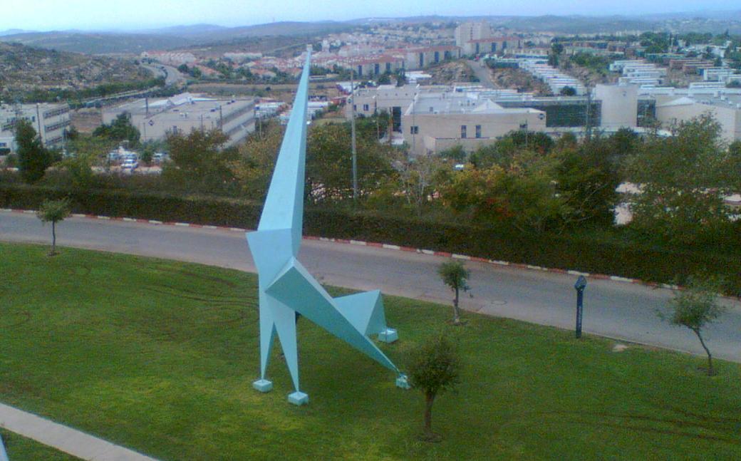 A statue near the library of the Ariel University Center. The town can be seen in the background